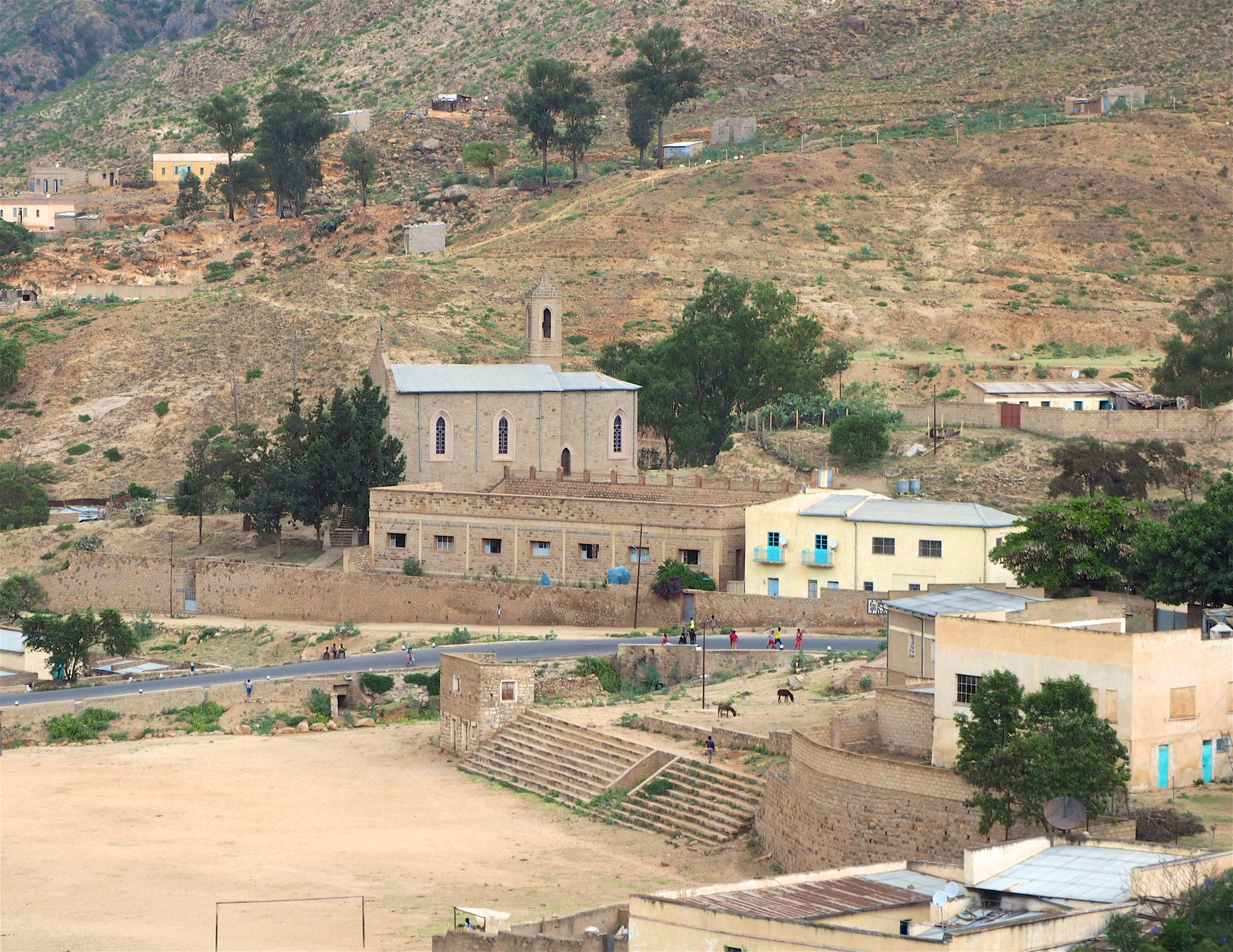 On the main road from Asmara to Massawa